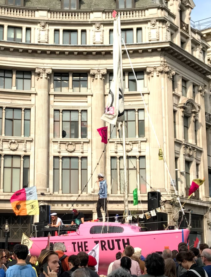 The boat named after Berta Cáceres which was the focus of the Extinction Rebellion protest in Oxford Circus in April 2019. The slogan on the side was "Tell the Truth".